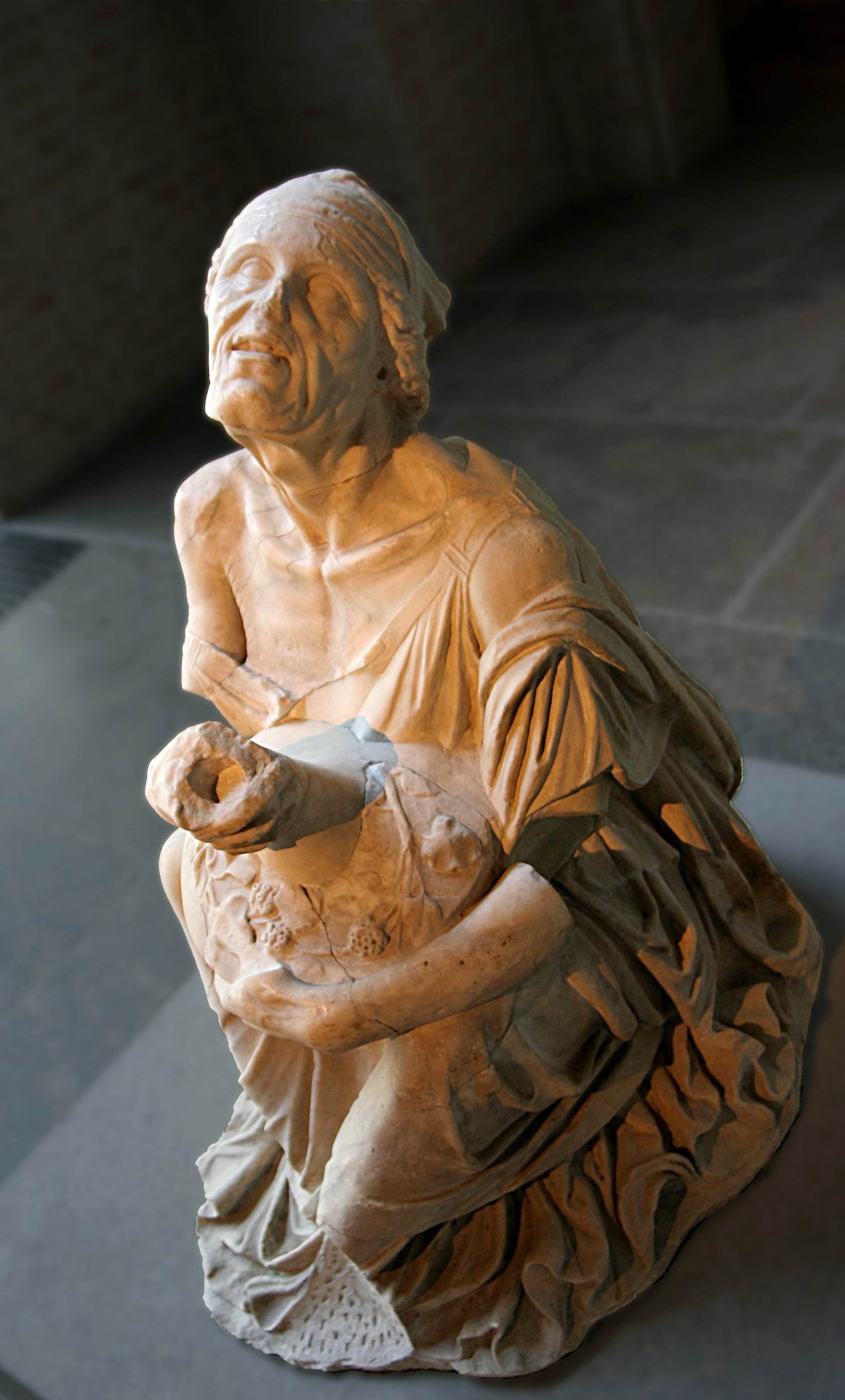 Drunken old woman clutching a big lagynos (Hellenistic wine jug) decorated with reliefs. Marble, Roman copy after a Greek original of the 2nd century BC (200–180). According to Roman tradition, this famous statue type was credited to an artist called Myron.